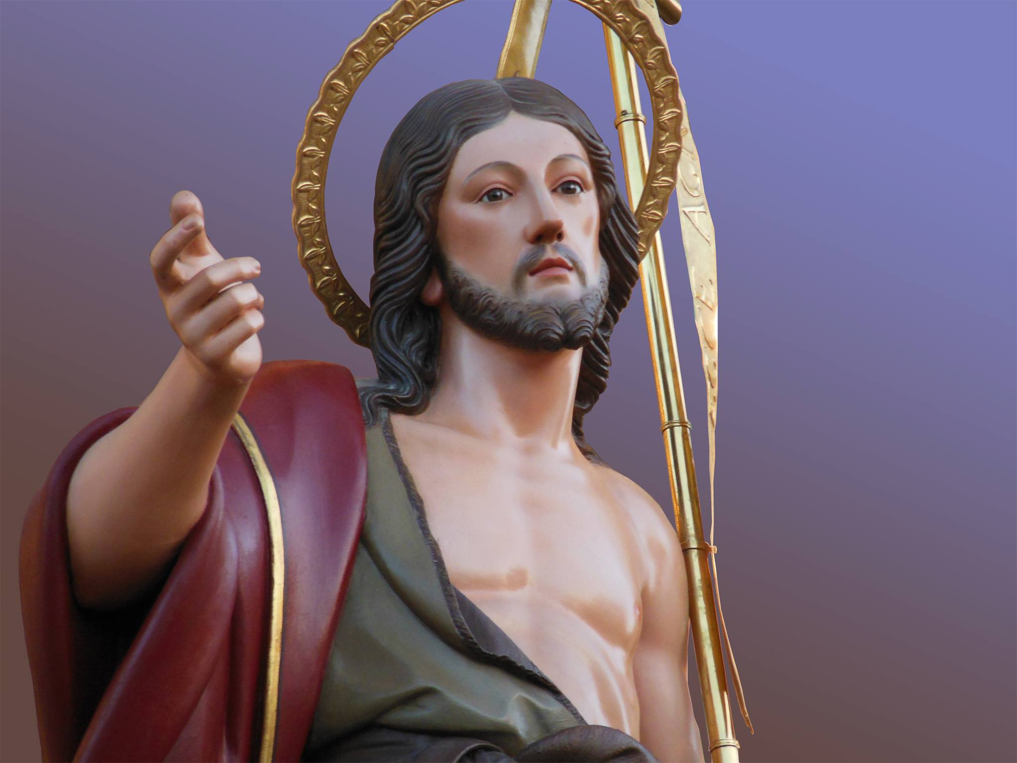 This is a detail of the Saint John the Baptist statue kept in Xewkija Parish Church in Gozo, Malta. The statue is sculpted in wood by Maestro Pietro Paulo Azzopardi in 1845. In 1943 the statue was repainted by Joseph Briffa.